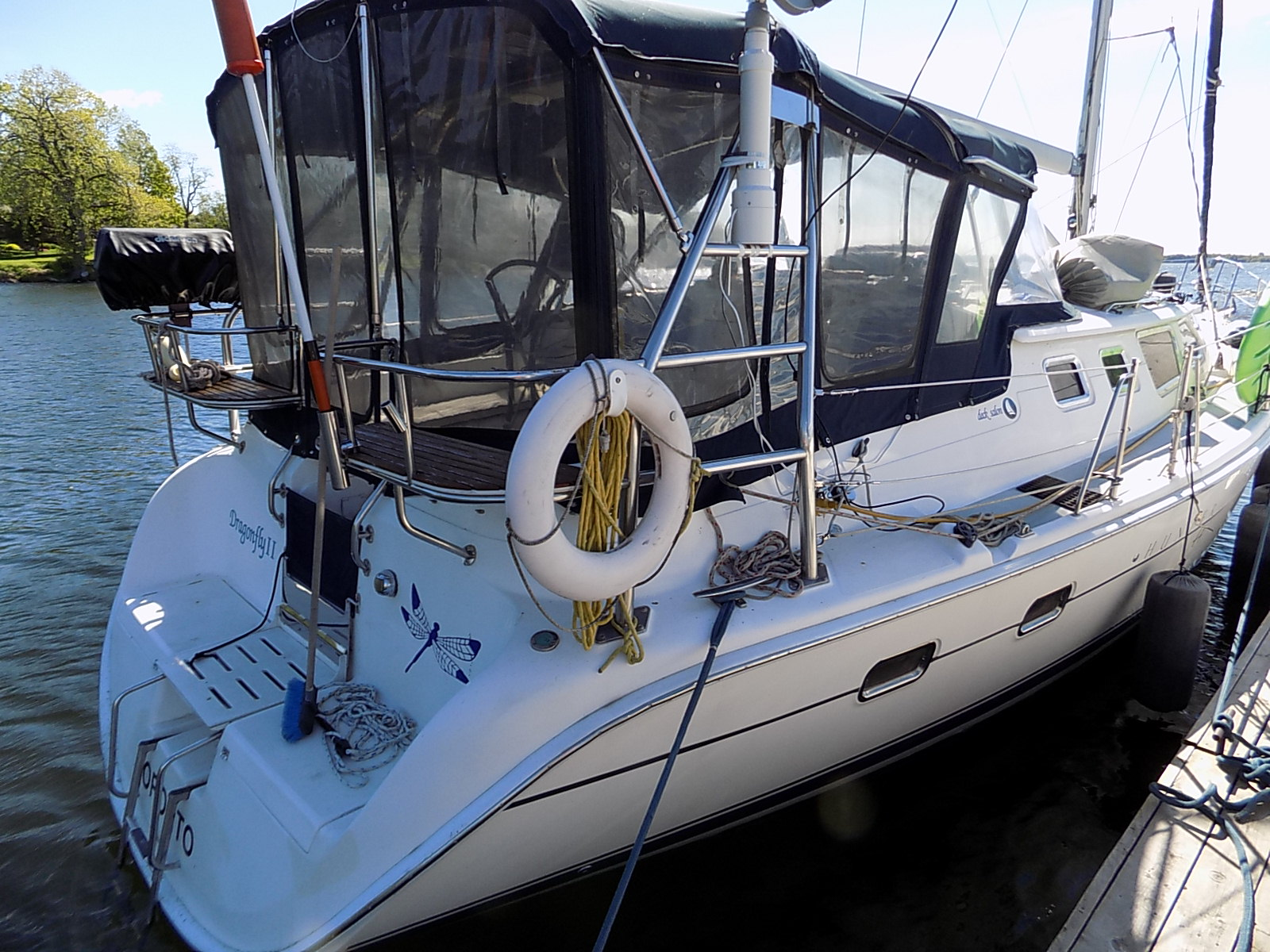 A Hunter 44 sailboat named Dragonfly II.